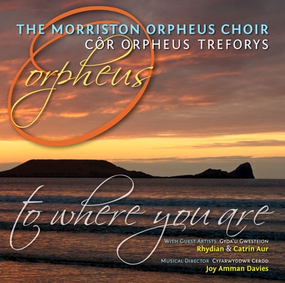 Artwork for the Album To Where You Are by The Morriston Orpheus Choir